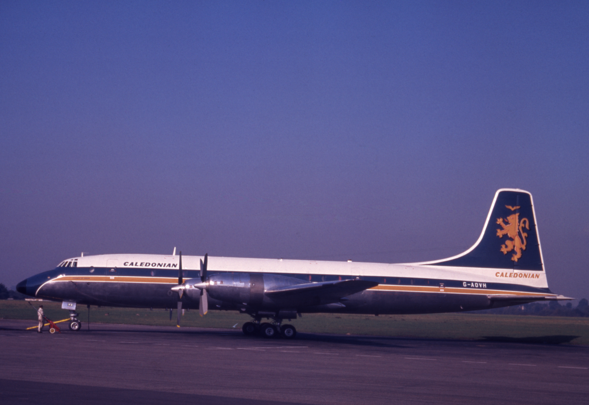 Bristol 175 Britannia 312 G-AOVH, Caledonian Airways, Southend, UK